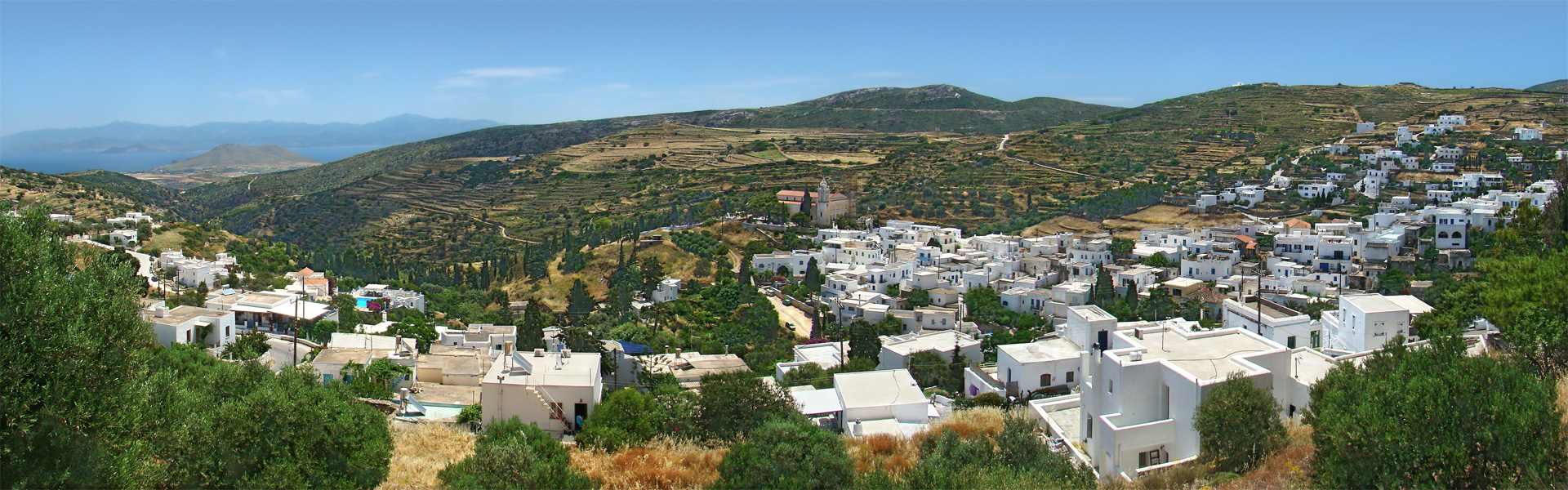 Lefkes, Paros, Greece.